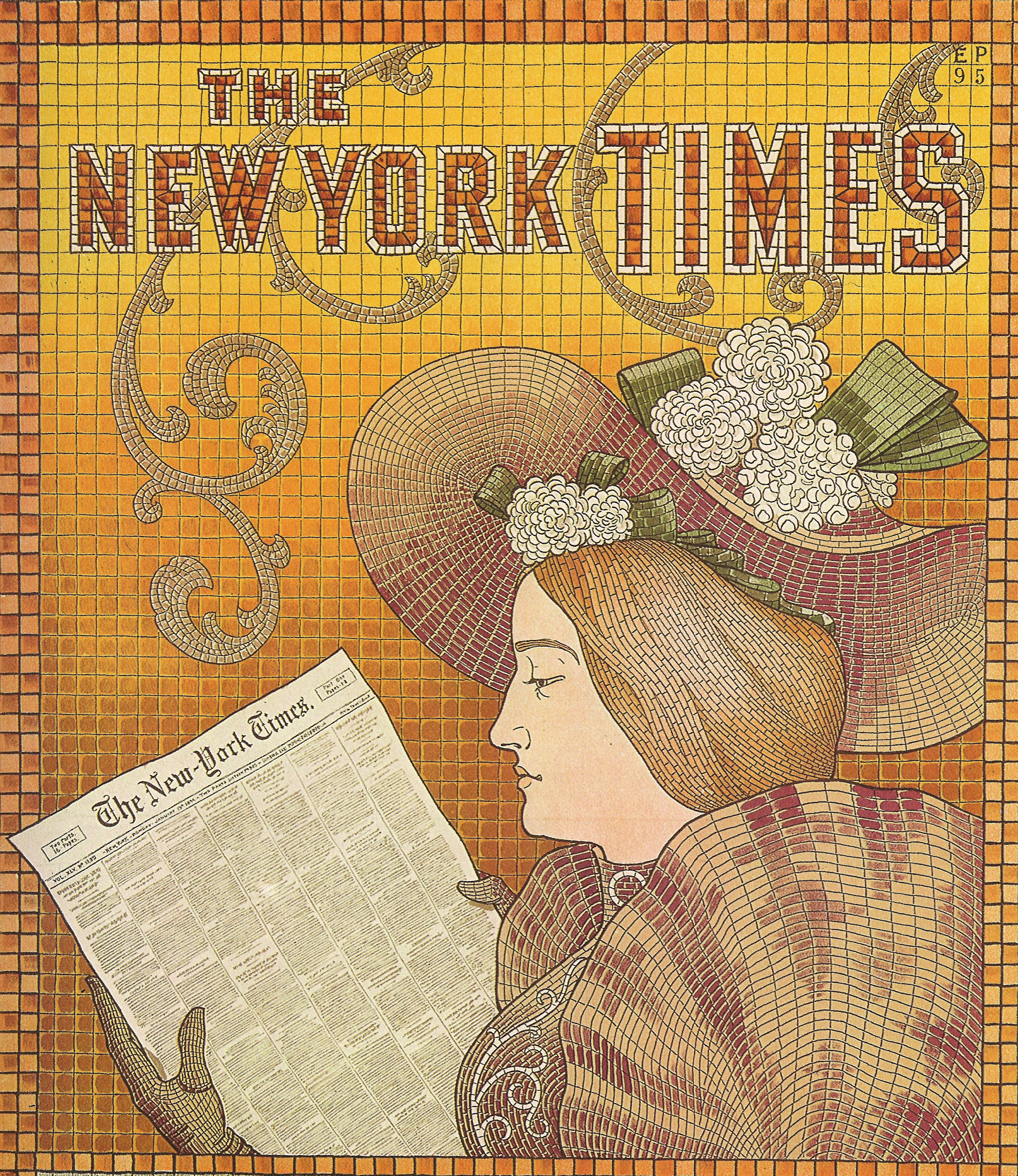 Detail of a New York Times Advertisement - 1895